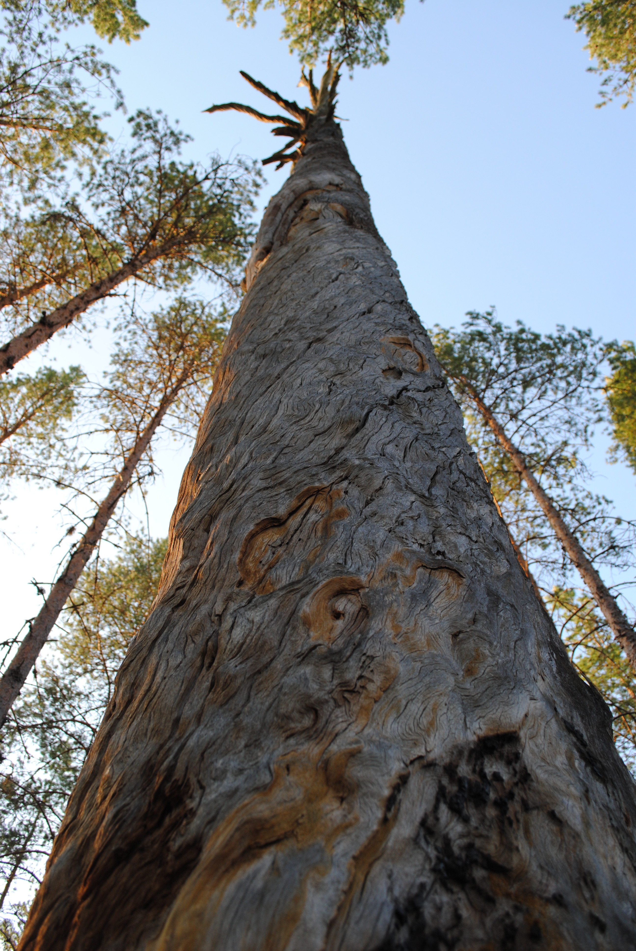 Old dry Pine (Pinus sylvestris) near lake Tyren, Gagnef municipality, Sweden. The tree, which is dendrochronologicaly investigated through a number of cores taken with increment borer, started to grow around 1320 and the youngest ring measured is from 1709. The tree has recorded a number of wild fires among others 1637 and 1703